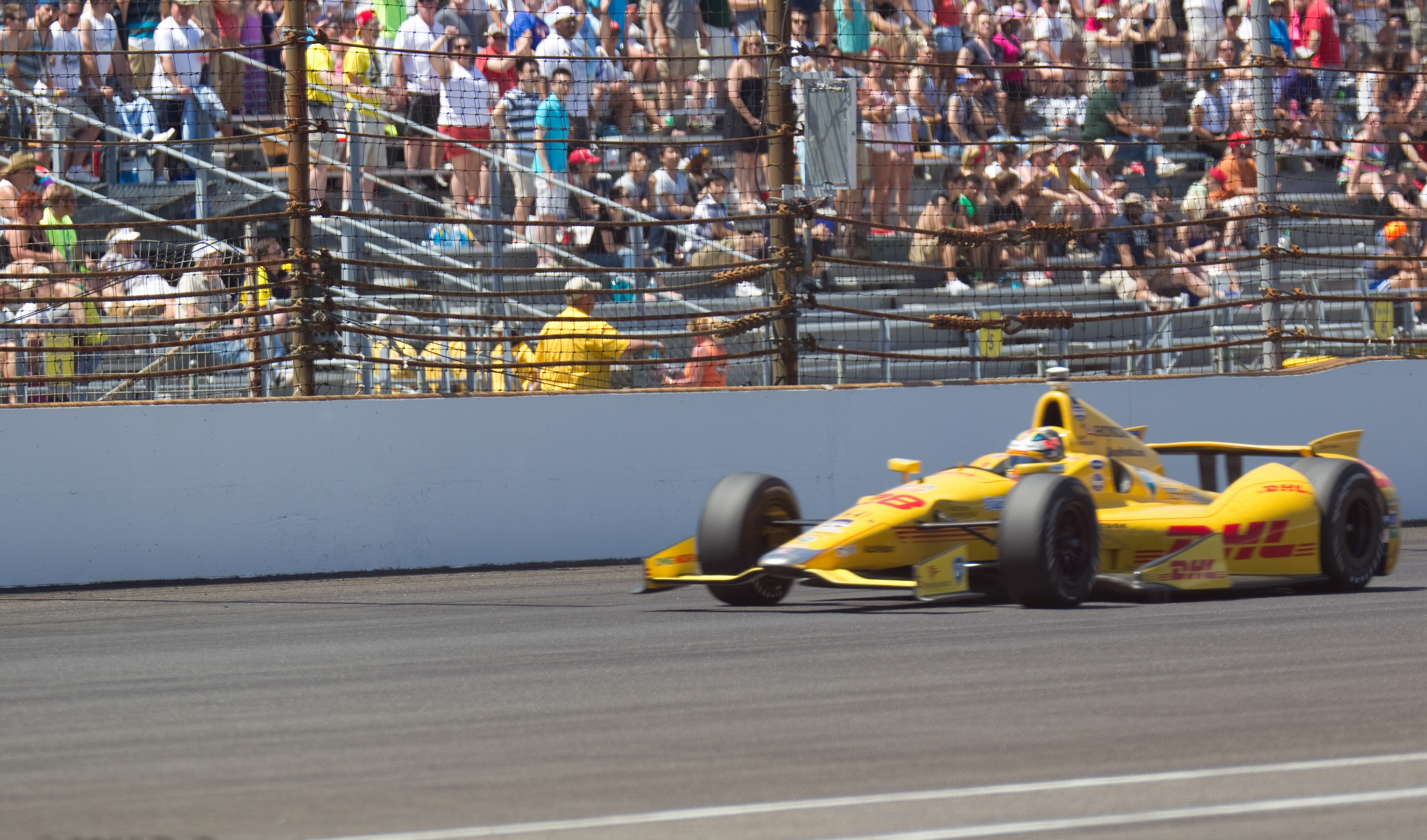 Ryan Hunter-Reay on his way to win the 2014 Indy 500 for Andretti Autosport.